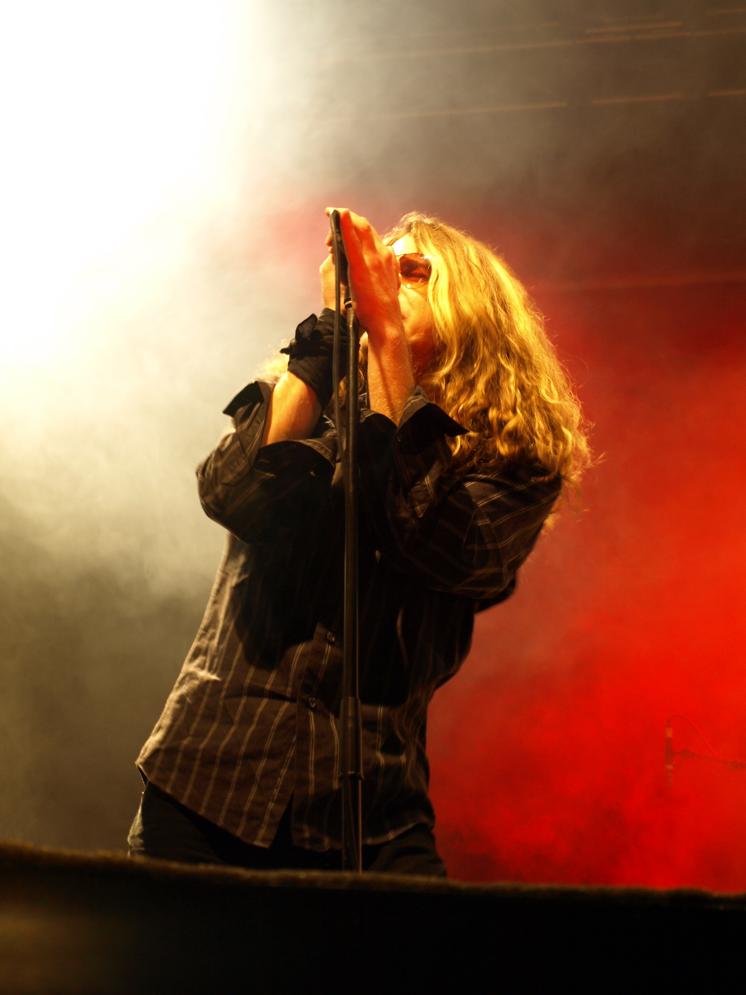 American doom metal band Trouble live at Jalometalli 2008 in Oulu.